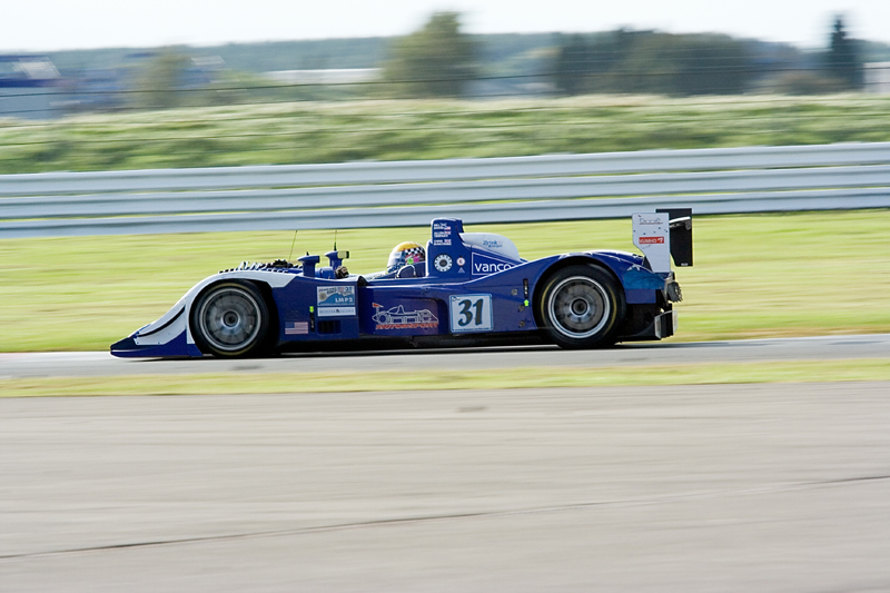 Binnie Motorsports' Lola B05/42-Zytek at the 2007 1000 km of Silverstone